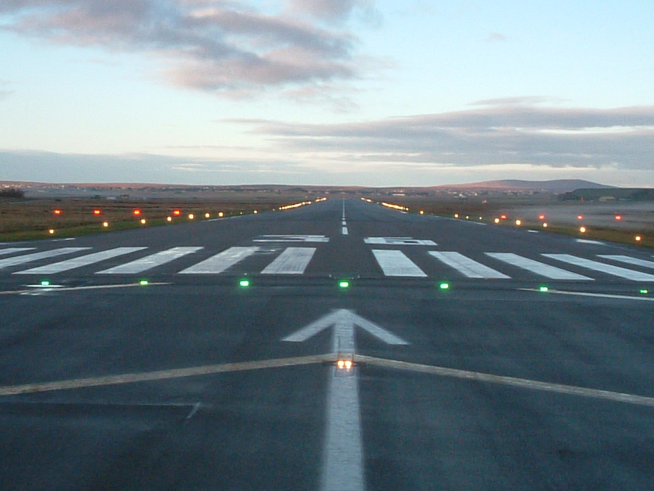 Picture of Stornoway Airport runway, taken my